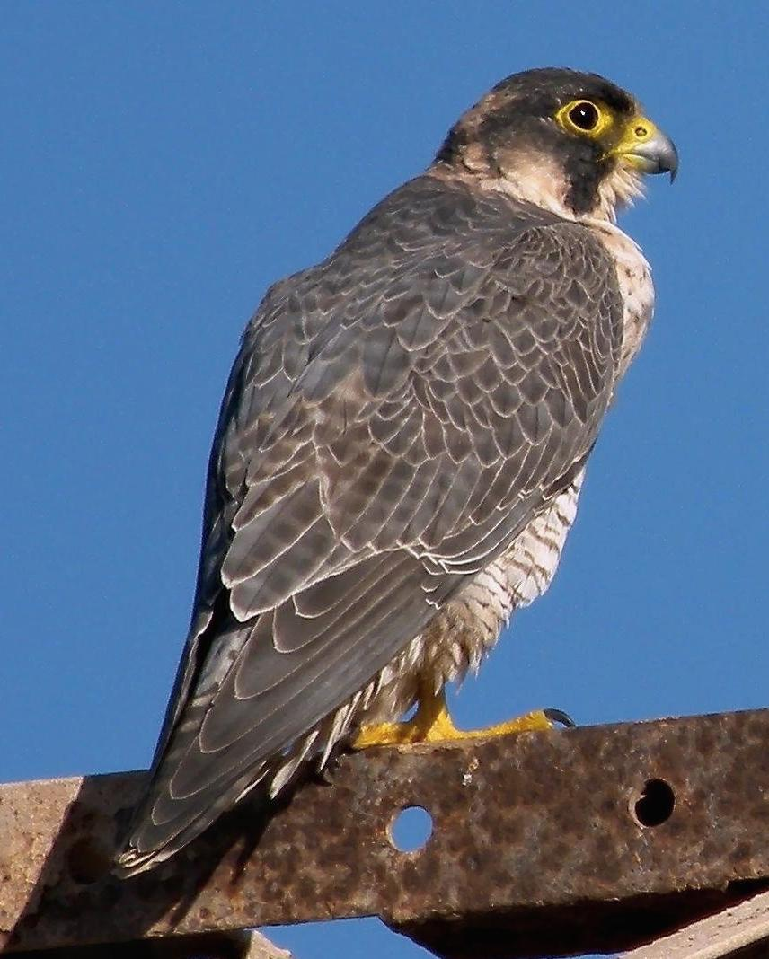 Barbary Falcon